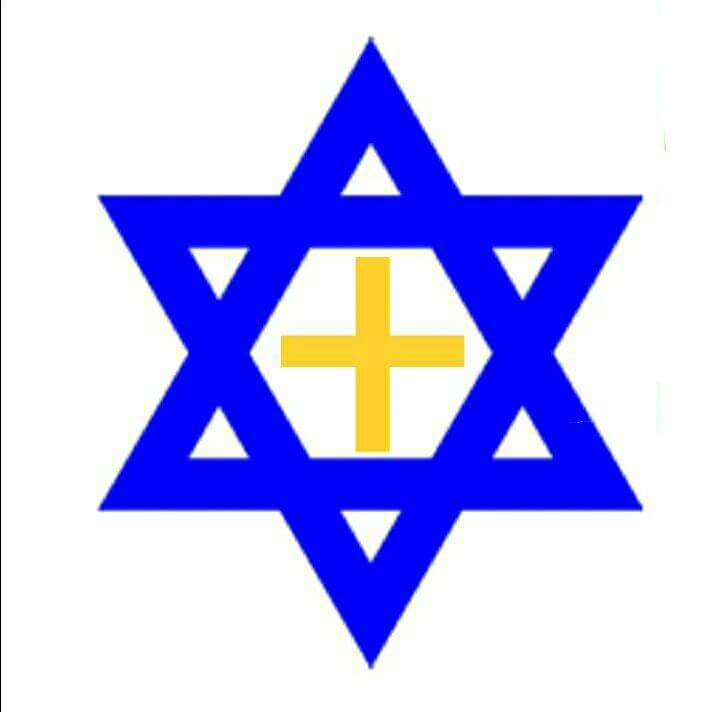 Maguen David (Estrella de David) con Cruz en el centro.